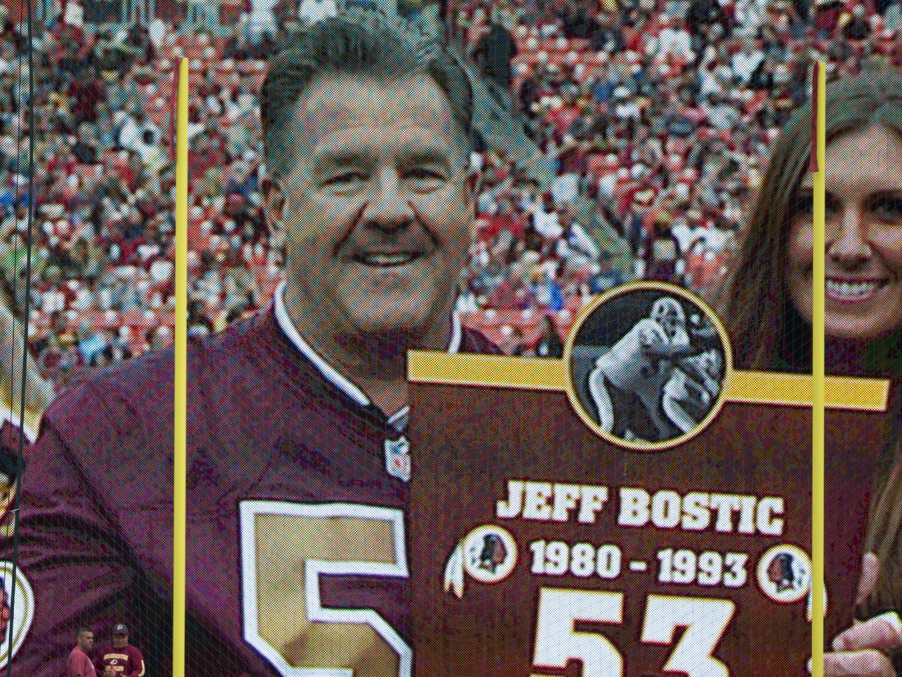 Buccaneers at Redskins 10/25/15